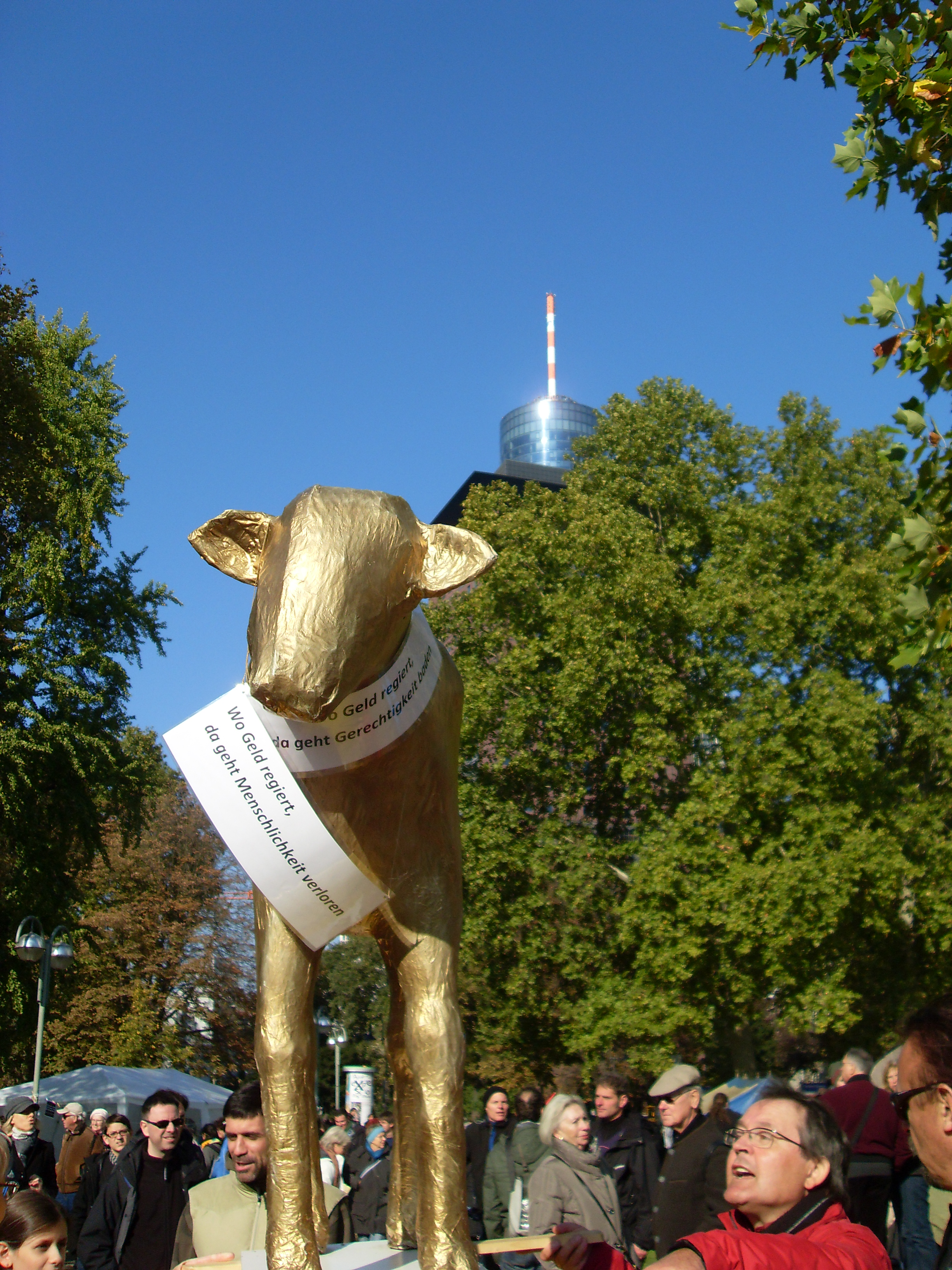 „Occupy Frankfurt“: Rally, 22nd October 2011 - the Golden Calf